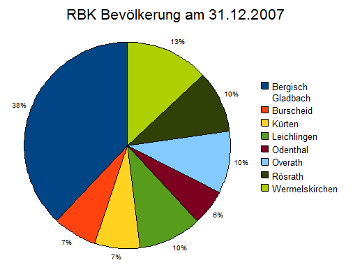 Inhabitants of the Rheinisch-Bergischer Kreis, a district in Germany 2007-12-31